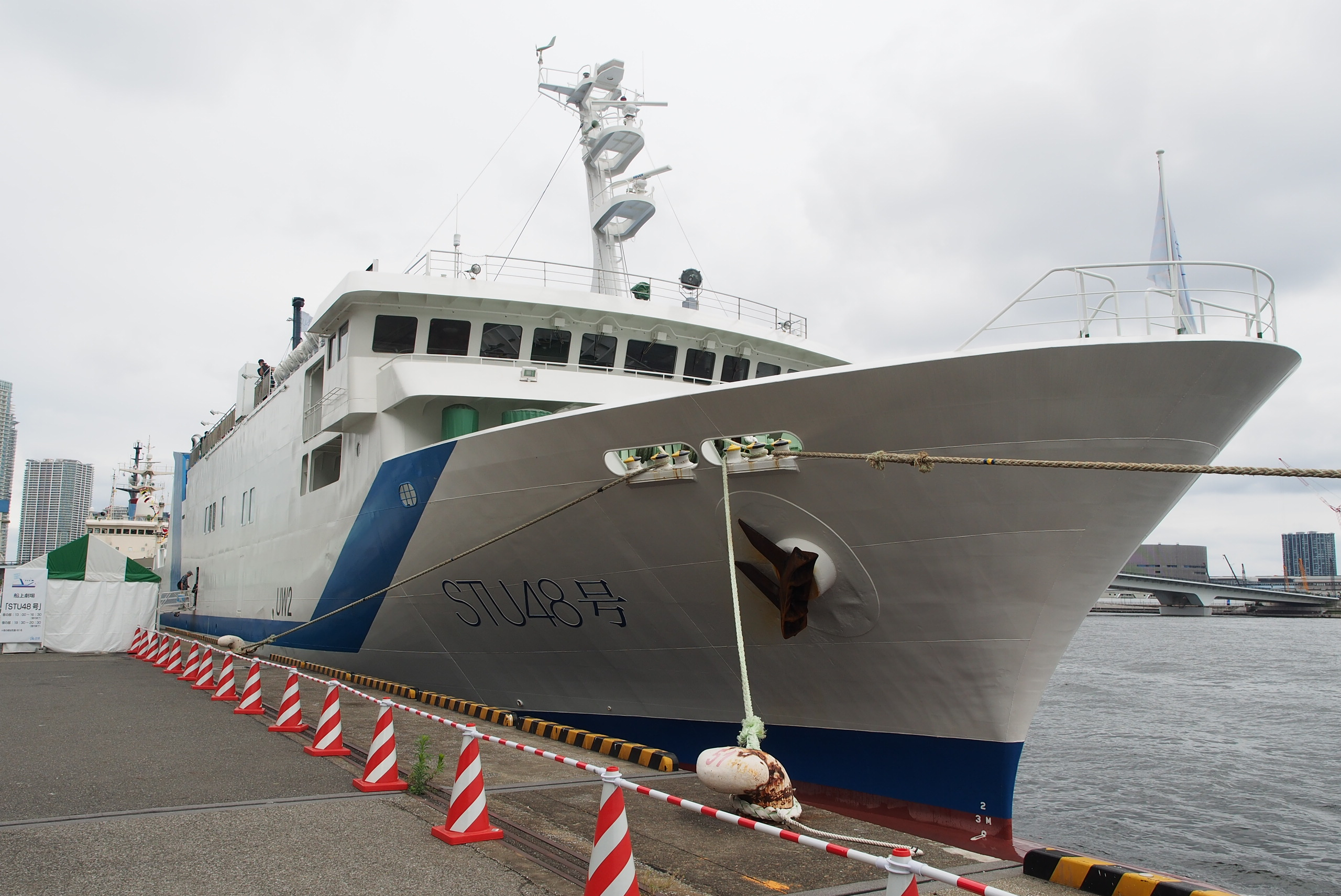 Theater ship STU48-go berthed at Harumi Pier in Tokyo, Japan.